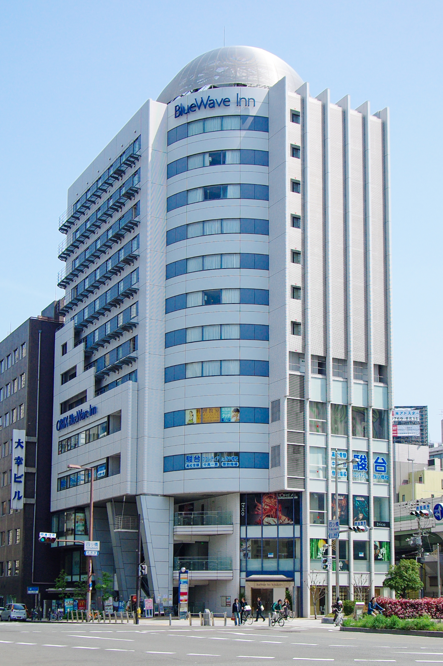 Photograph of White Dome Plaza, including BlueWave Inn Yotsubashi, in Nishi-ku, Osaka, Osaka Prefecture, Japan.